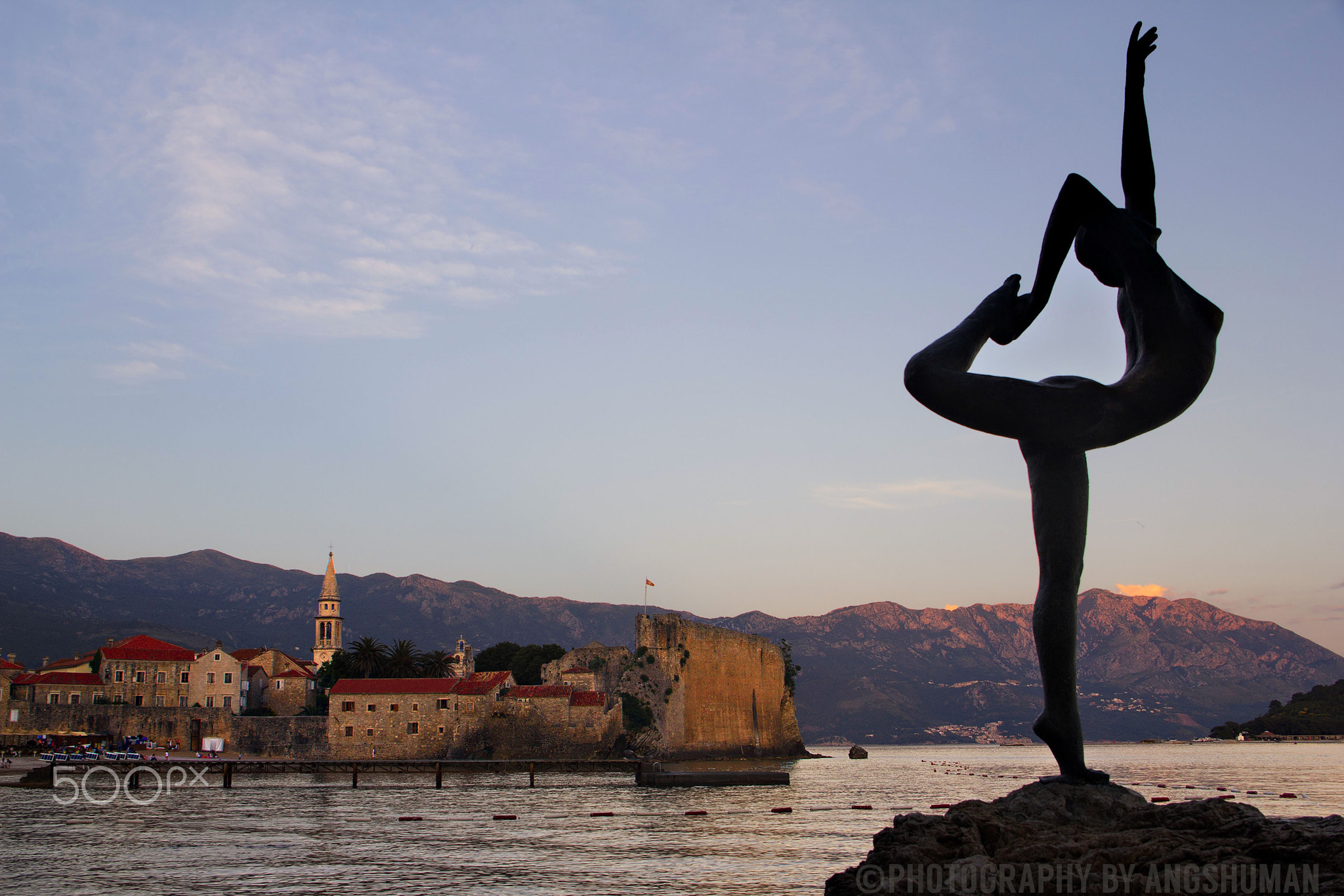 500px provided description: Budva is a coastal tourist resort in Montenegro. On the outskirts Budva, on the shores of the Adriatic coast of Montenegro is a beautiful bronze sculpture of a girl, frozen in a graceful arabesque as she gazes out to sea. This monument located on a rocky rock near the beach Morgen is called the "Dancer of Budva ?or ?gymnast of Budva", and became the unofficial symbol of the city. It is work of the sculptor Gradimir Aleksi?, who found his inspiration in an old local legend about a girl, who came each morning to the beach, spent her days looking at the open sea, waiting for her fianc? to come back to her. The years passed by, sailors came and went, but her fianc? never returned....she is still waiting? Budva was founded by the Greeks in the fourth century BC, and then fortified during the Middle Ages, the town forms the heart of the ?Budva Riviera?, which runs 22 miles from Trsteno to Buljarica, and is dotted with a series of sheltered coves and eight miles of sand and pebble beaches. [#sea ,#sunset ,#travel ,#coast ,#silhouette ,#statue ,#evening ,#500px ,#sculpture ,#old town ,#gymnast ,#sculptor ,#Canon ,#Montenegro ,#Adriatic ,#Dancer ,#Balkans ,#National Geographic ,#Budva ,#Lonely Planet ,#Angshuman ,#Morgen beach ,#Gradimir Aleksi?]